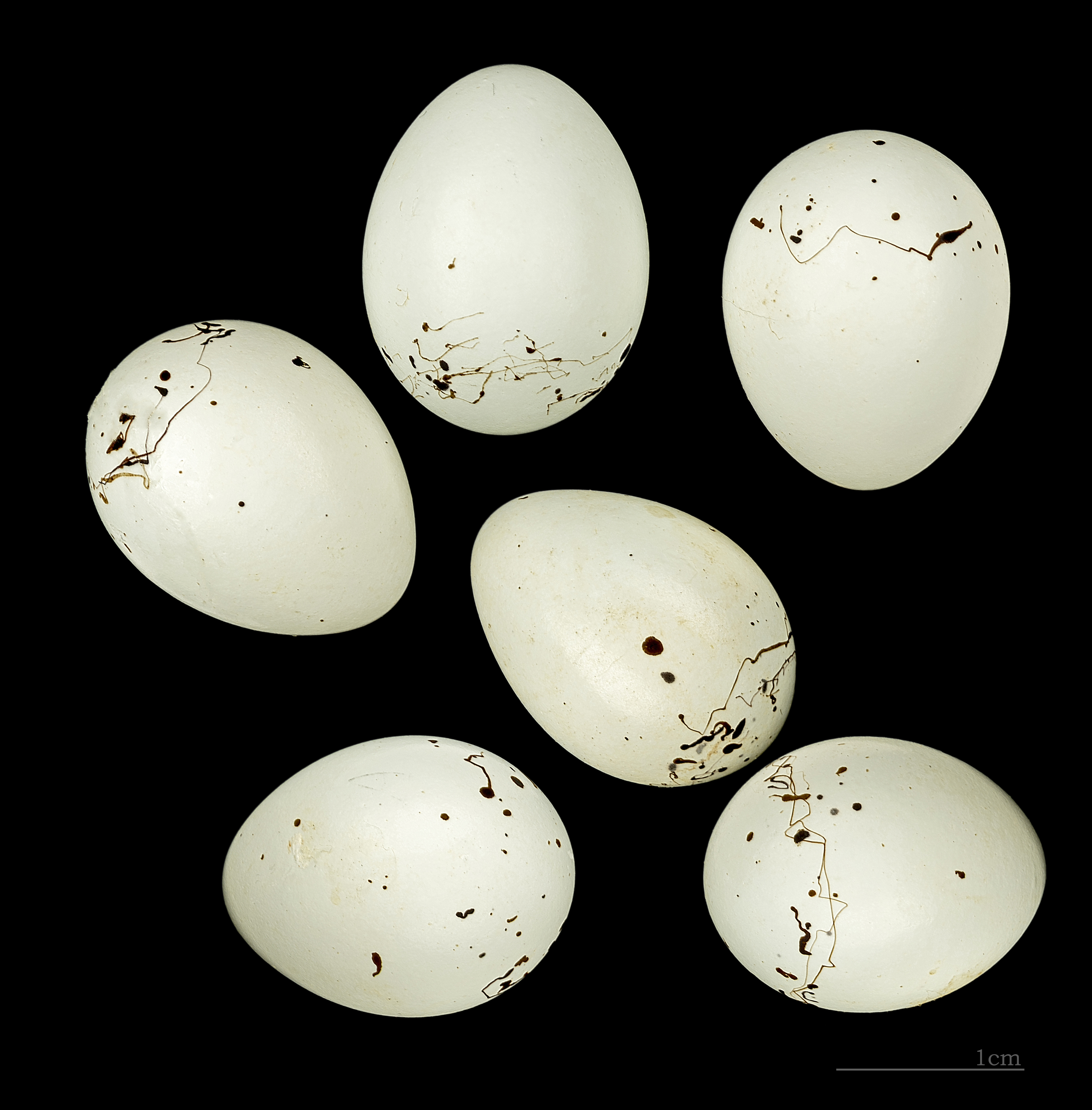 Egg of Desert Finch Collection of Jacques Perrin de Brichambaut